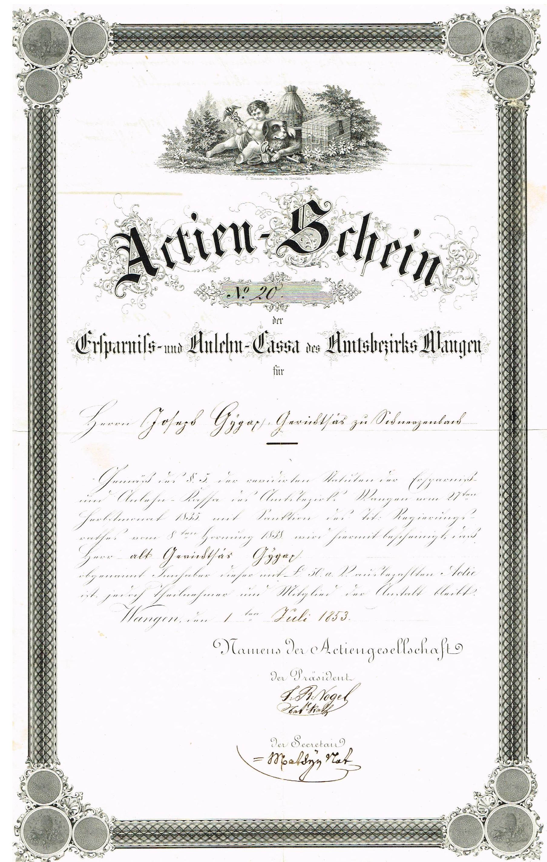 Share of the Ersparniss- und Anlehn-Cassa des Amtsbezirks Wangen, issued 1. July 1853